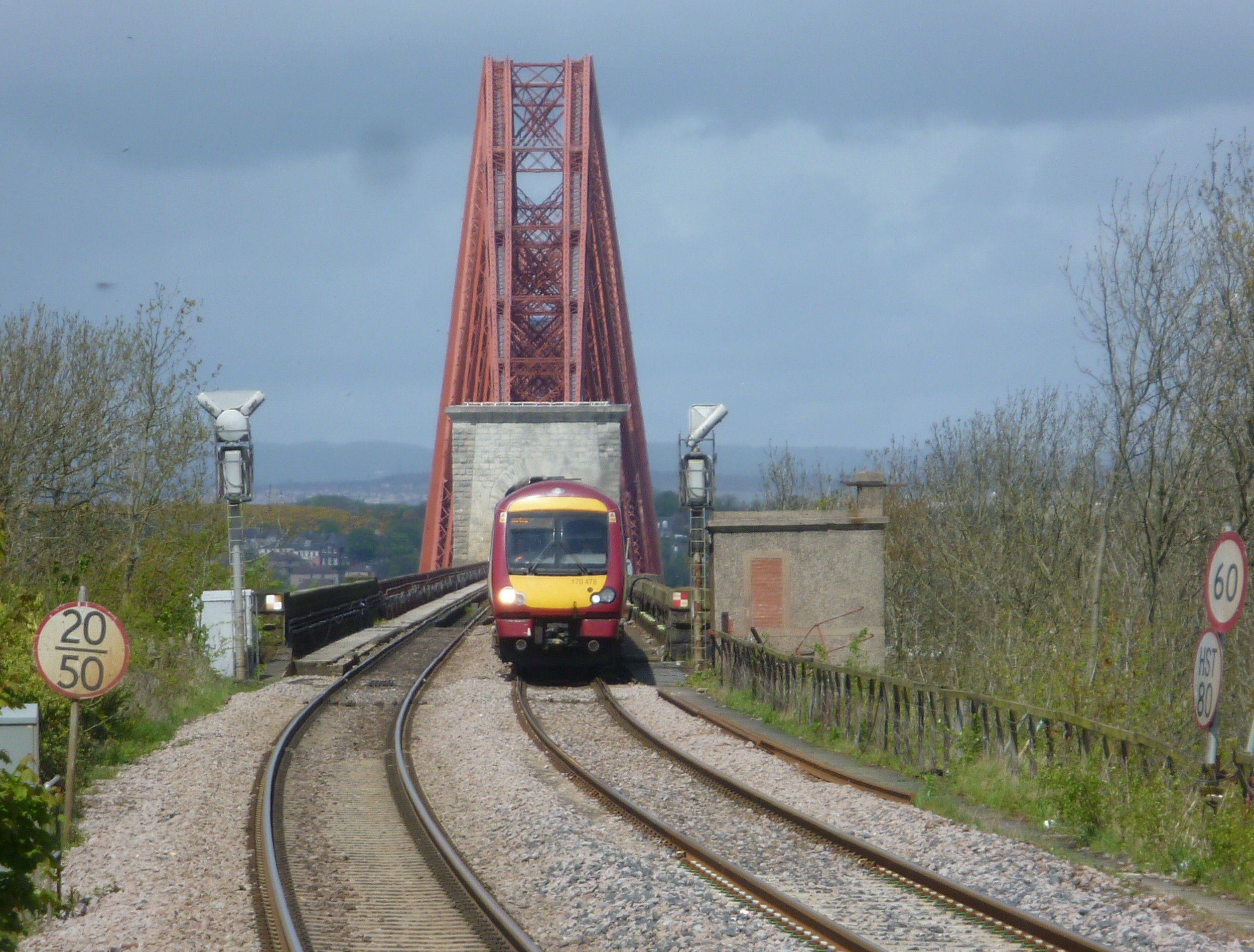 Train approaching Dalmeny Station from the Forth Bridge